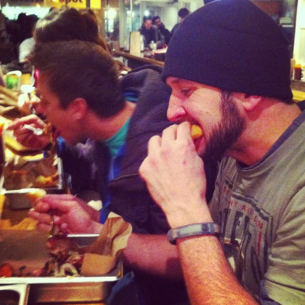 Post prank sustenance for @romanatwood & @dennisroady with some awesome BBQ, Montreal style!